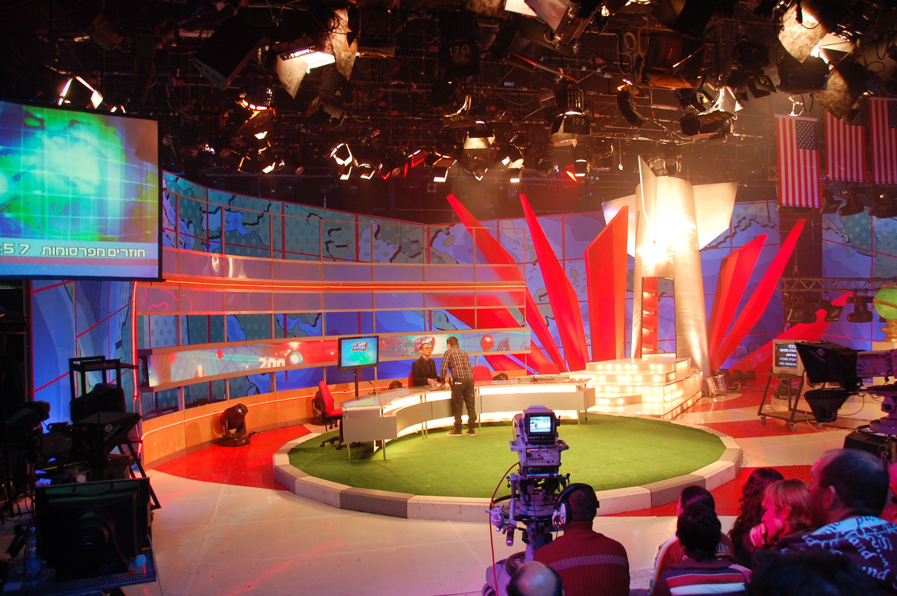 Eretz Nehederet (Hebrew: ארץ נהדרת, lit. A Wonderful Country) is a satirical Israeli television show, which made its debut on November 2, 2003, featuring satirical references to current affairs of the past week through parodies of the people involved, as well as the thoughts of recurring characters. The program is one of the most watched and influential shows on Israeli TV. It was first filmed in Tel Aviv, and in later seasons, was filmed in the neighboring Herzliya.